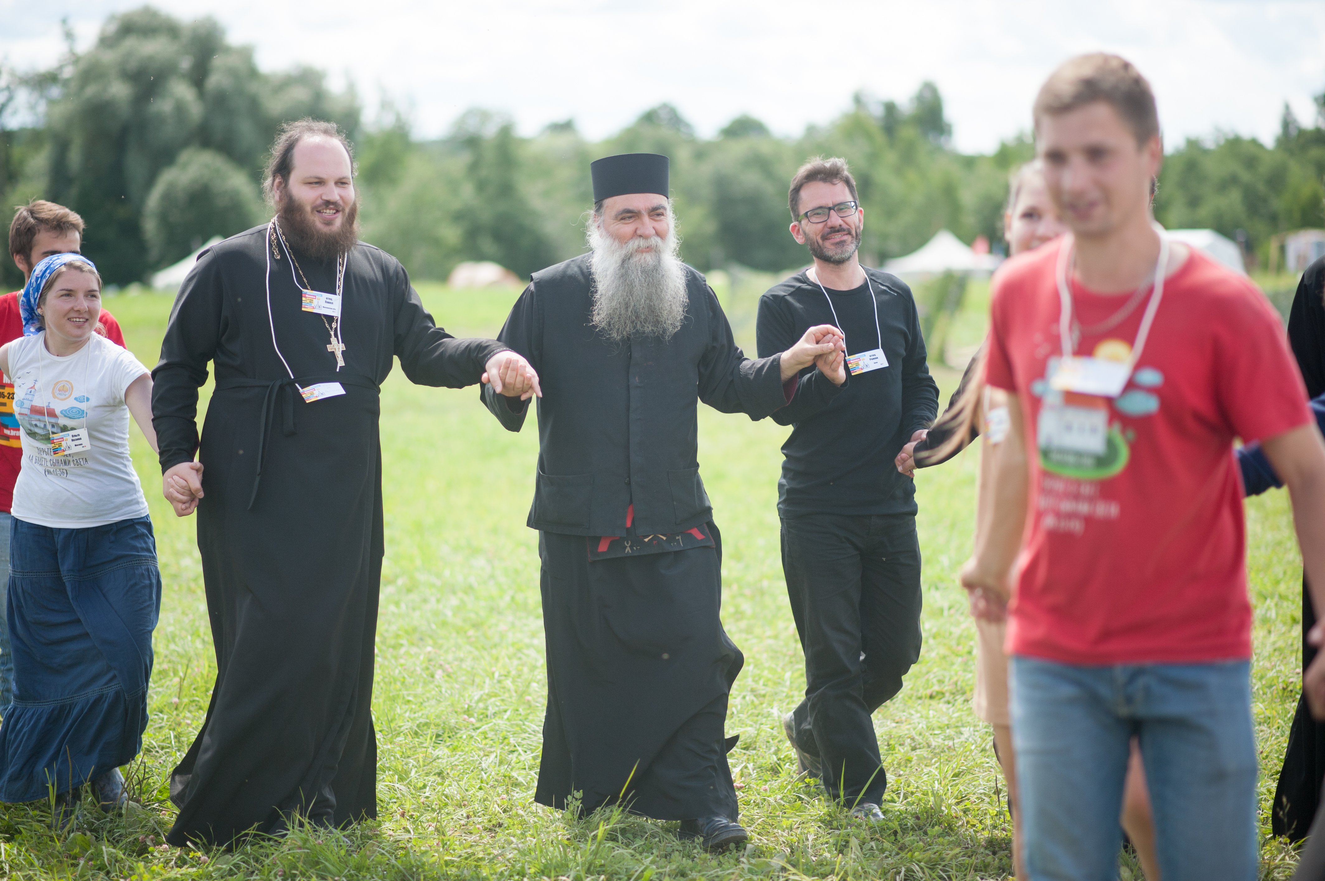 Khorovod at the festival "Bratya" with the participation of the clergy: the priest Pavel Ostrovsky (Krasnogorsk), schemamonk Hilarion (Mihail) (Athos), priest Roman Andrienko (Kiev)